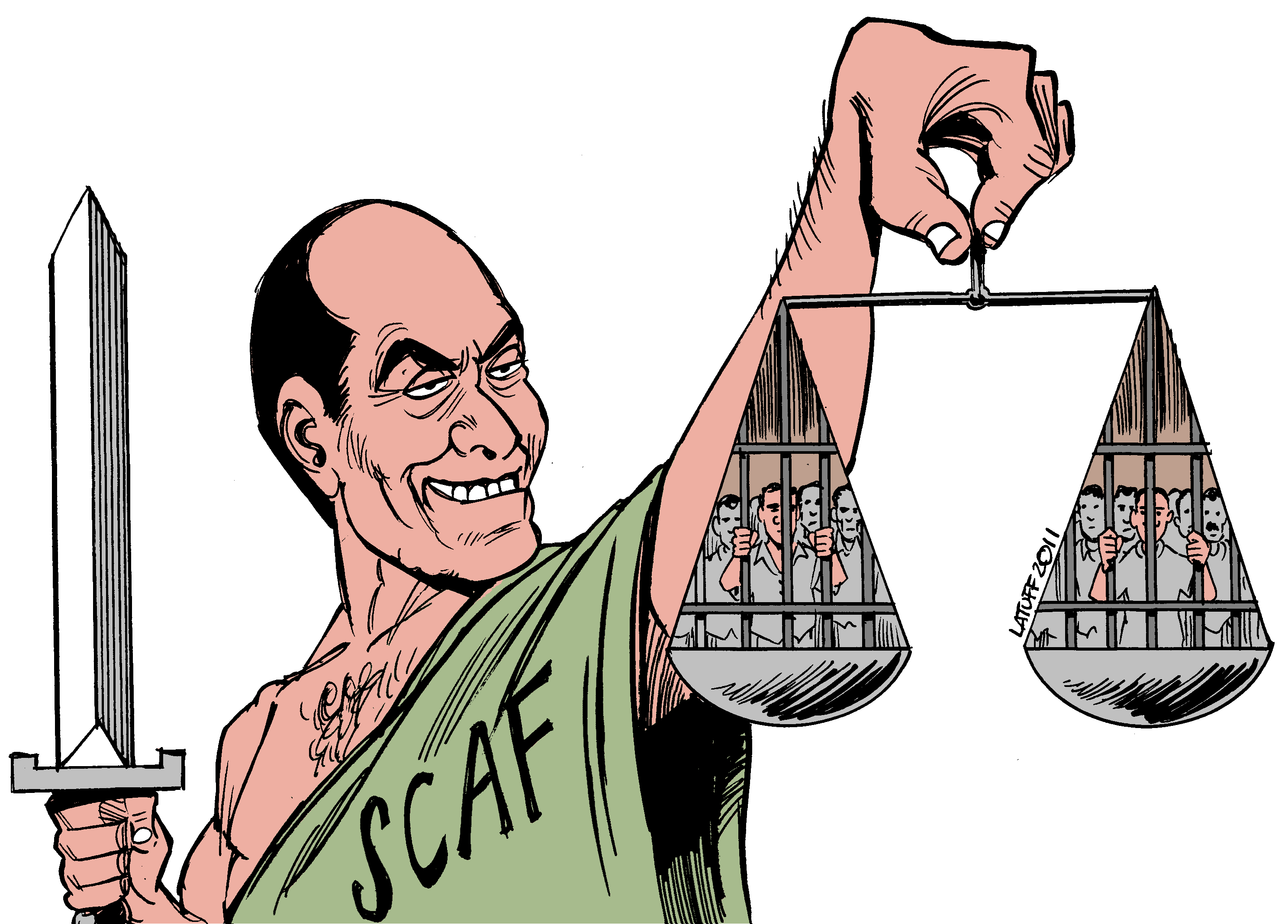 Mohamed Hussein Tantawi (Chairman of the SCAF) depicted as Lady Justice